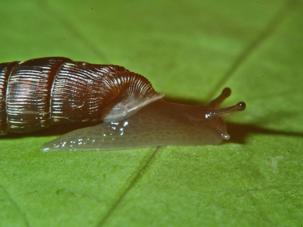 Clausilia bidentata var crenulata - close-up